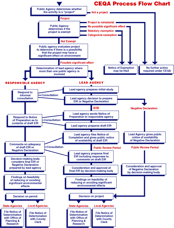 Flow chart illustrating the procedural steps followed during a CEQA process. From Other information from a government resource page provided to public. This flowchart also appears on another public wiki